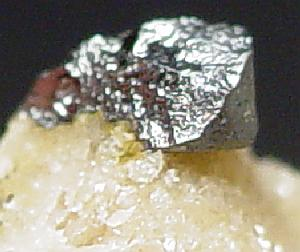 Canfieldite Locality: Colquechaca (Aullagas), Chayanta Province, Potosí Department, Bolivia (Locality at ) Sharp 2 mm crystal and several partial crystals and massive areas of the species distributed through the matrix. 3.5 x 3 x 2.5 cm